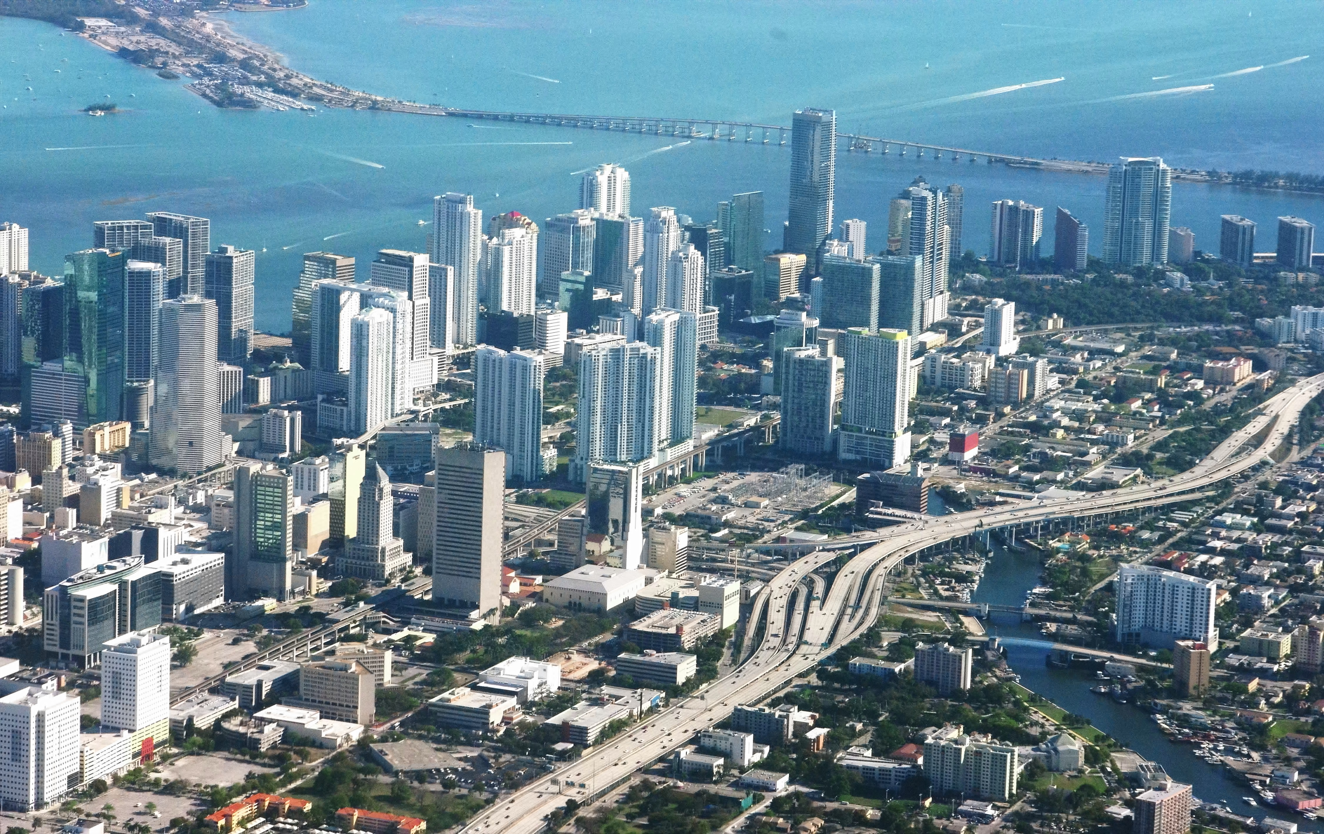 On departure from MIA to ATL on a beautifully clear winter day.